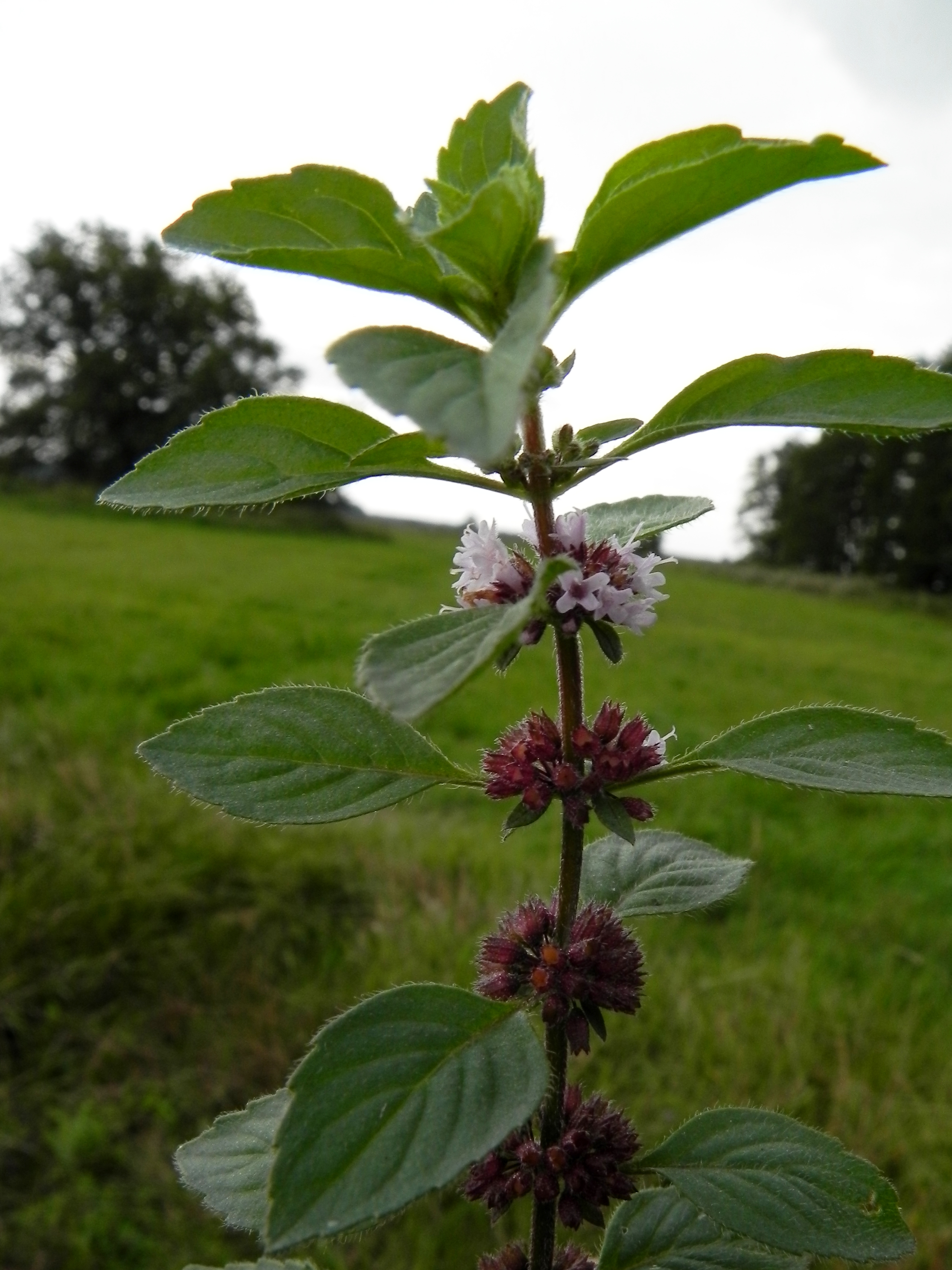 Corn Mint, Field Mint (Mentha arvensis)